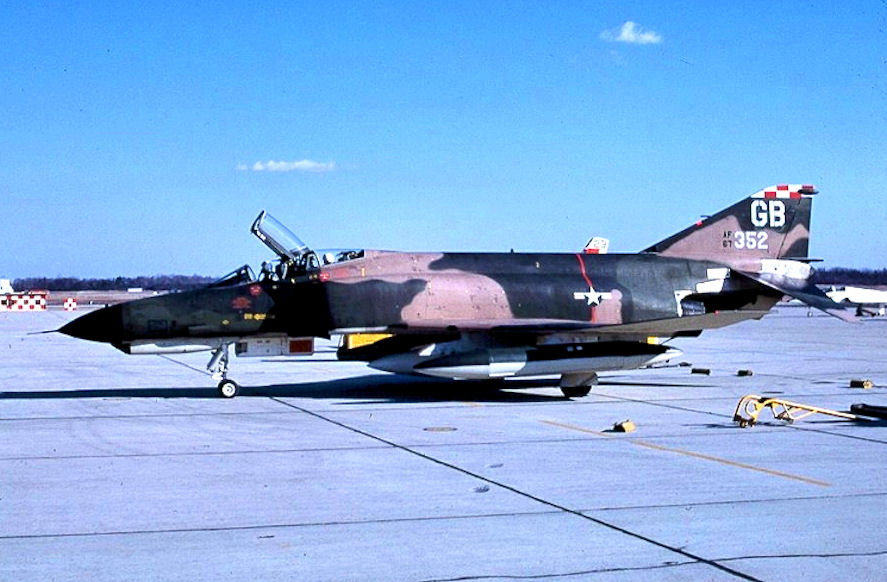 431st Test and Evaluation Squadron - McDonnell Douglas F-4E-36-MC Phantom 67-0352